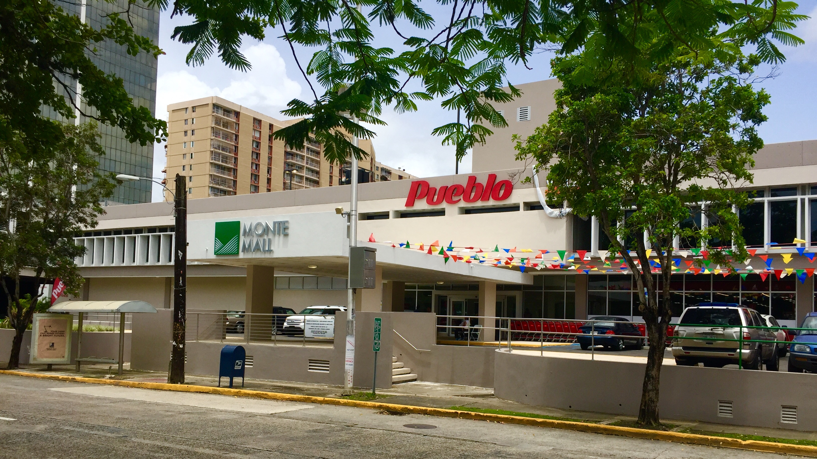 One of the first air-conditioned malls in San Juan